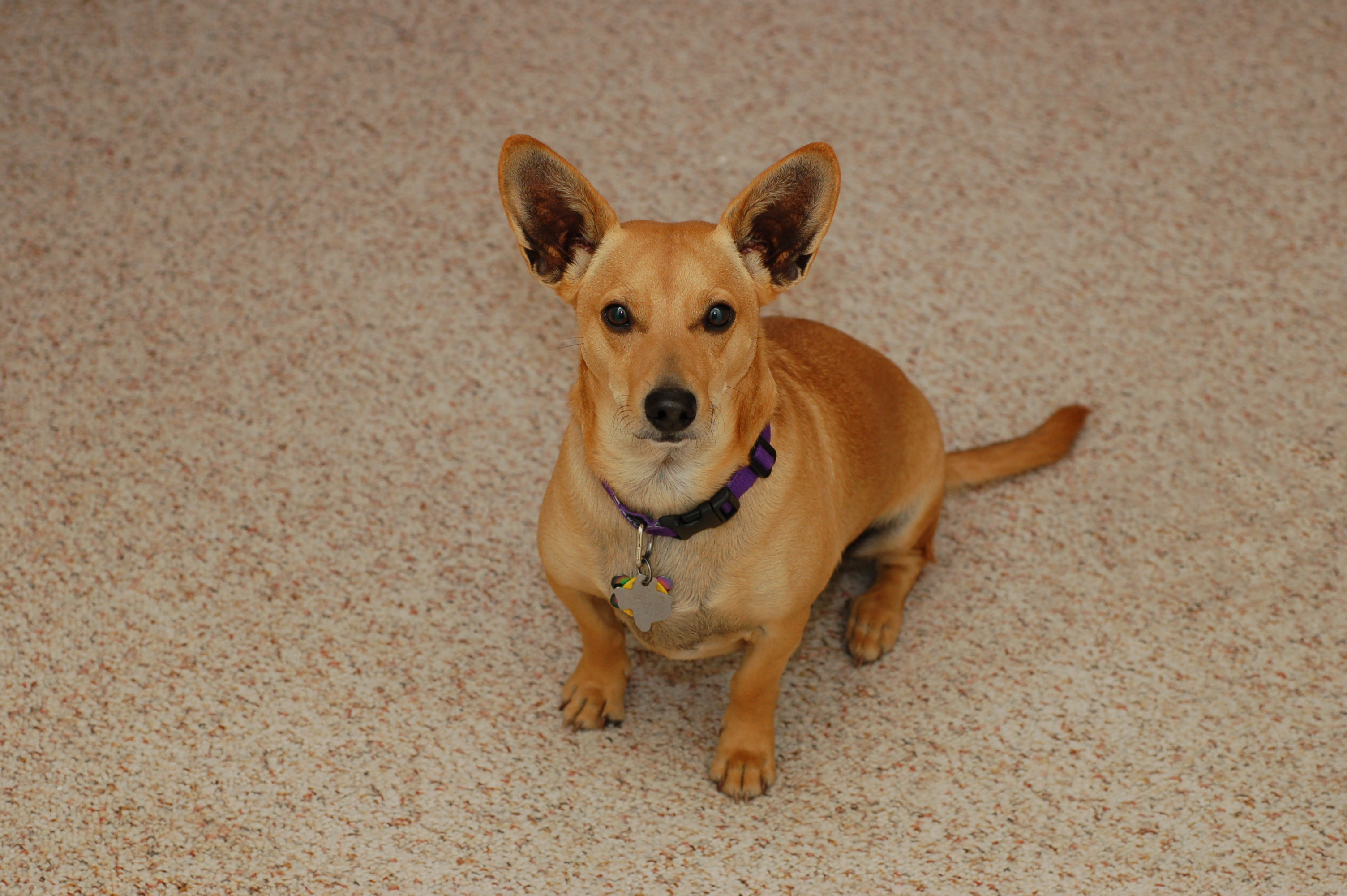 This is Dinkums. He is a cross between a Dachshund and a Welsh Corgi.